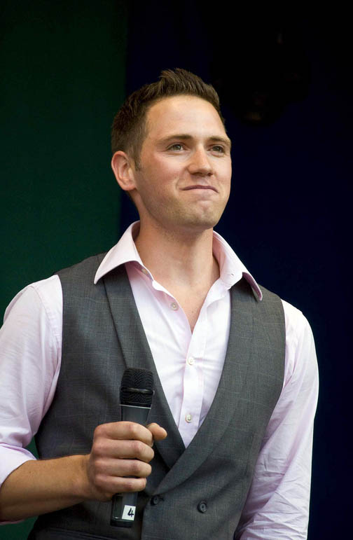 Kristian Digby at Pride London, July 2009